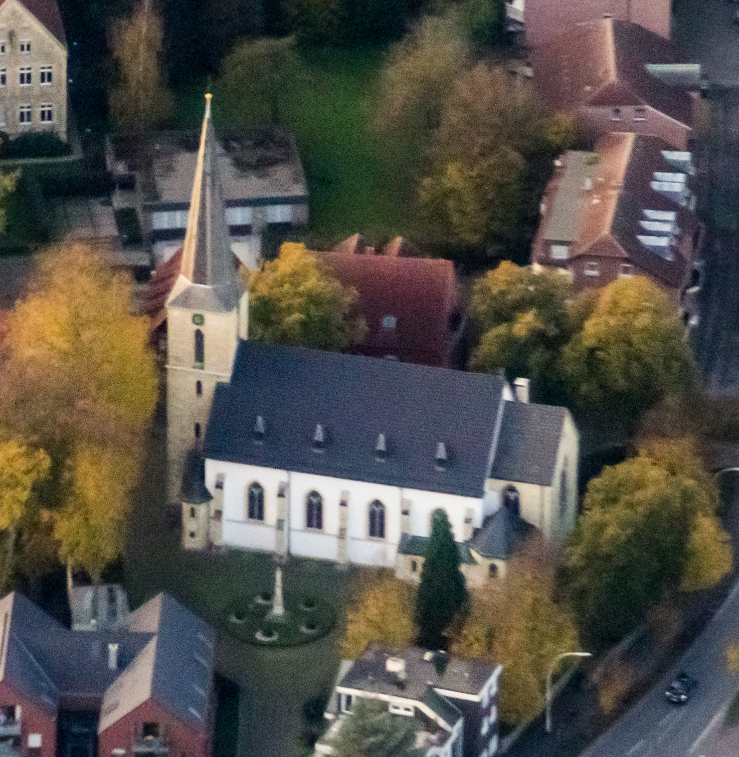 St. Mary's Assumption Church, Appelhülsen, Nottuln, North Rhine-Westphalia, Germany